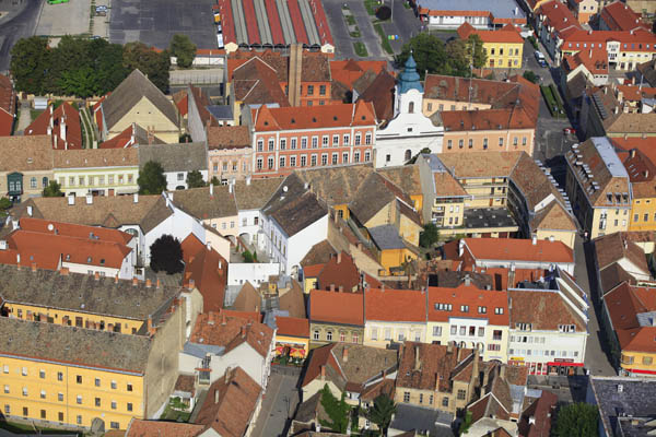 City Centre, Pápa, Veszprém county, Hungary, aerial photography